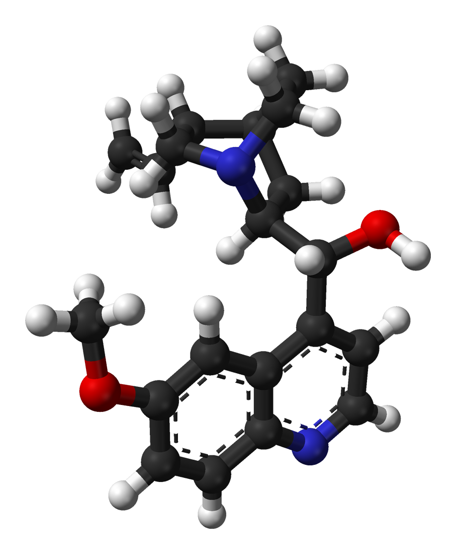 Ball-and-stick model of the quinine molecule, as found in the crystalline form. X-ray diffraction data from B. Pniewska and A. Suszko-Purzycka (1989). "Structure of quinine monohydrate toluene solvate". Acta Crystallographica Section C 45: 638-642.